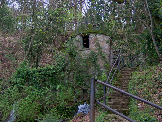 The spring castle at Rock Island State Park in Tennessee, located in the Southeastern United States. The "castle" is probably a larger version of a springhouse, which was used for refrigeration.